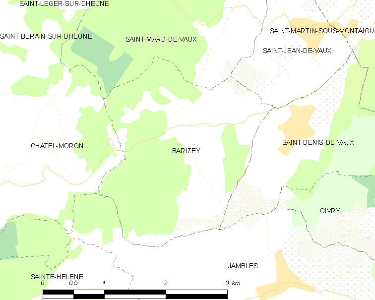 Map of French municipality